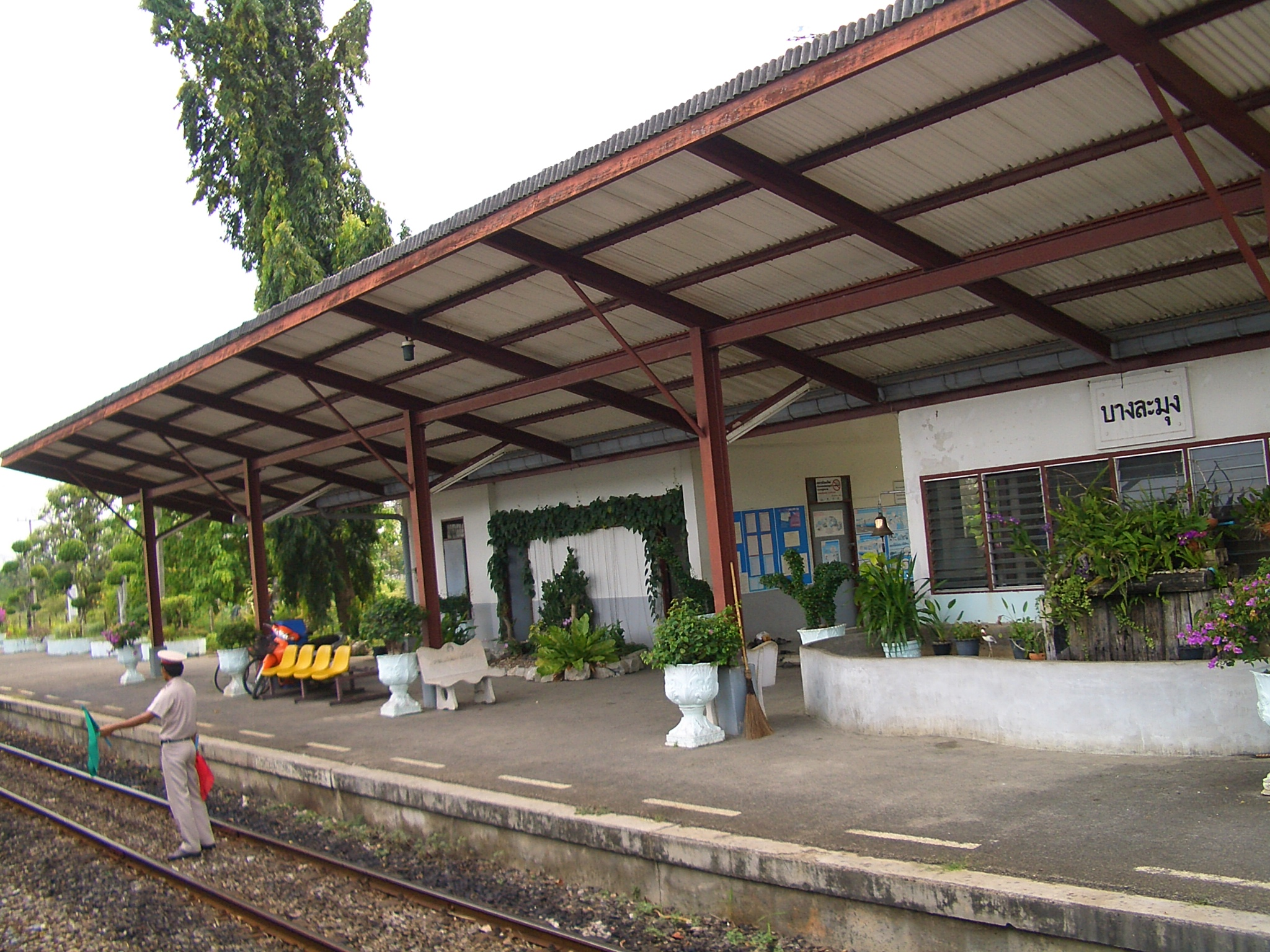 Bang Lamung train station.